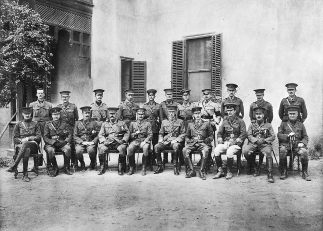 Group portrait of staff Officers at Mena Camp. Left to right: back row: Official correspondent Captain (Capt) Charles Edwin Woodrow Bean; Lieutenant (Lt) W. Smith; Capt J T Fitzgerald; Major T Matson; Capt W J Foster; Capt T Griffiths; Lt E C P Plant; Capt S M E R L de Bucy; Lt R G Casey, (later Governor General of Australia); Lt R A Ramsay; Lt F P Murphy. Front row: Lieutenant Colonel (Lt Col) J G Austin; Major C H Foott; Major J Gellibrand; Lt Col W G Patterson; Lt Col N R Howse VC; Major General W T Bridges; Lt Col C B White; Major D J Glasfurd; Major T A Blamey; Lt Col G A Marshall.